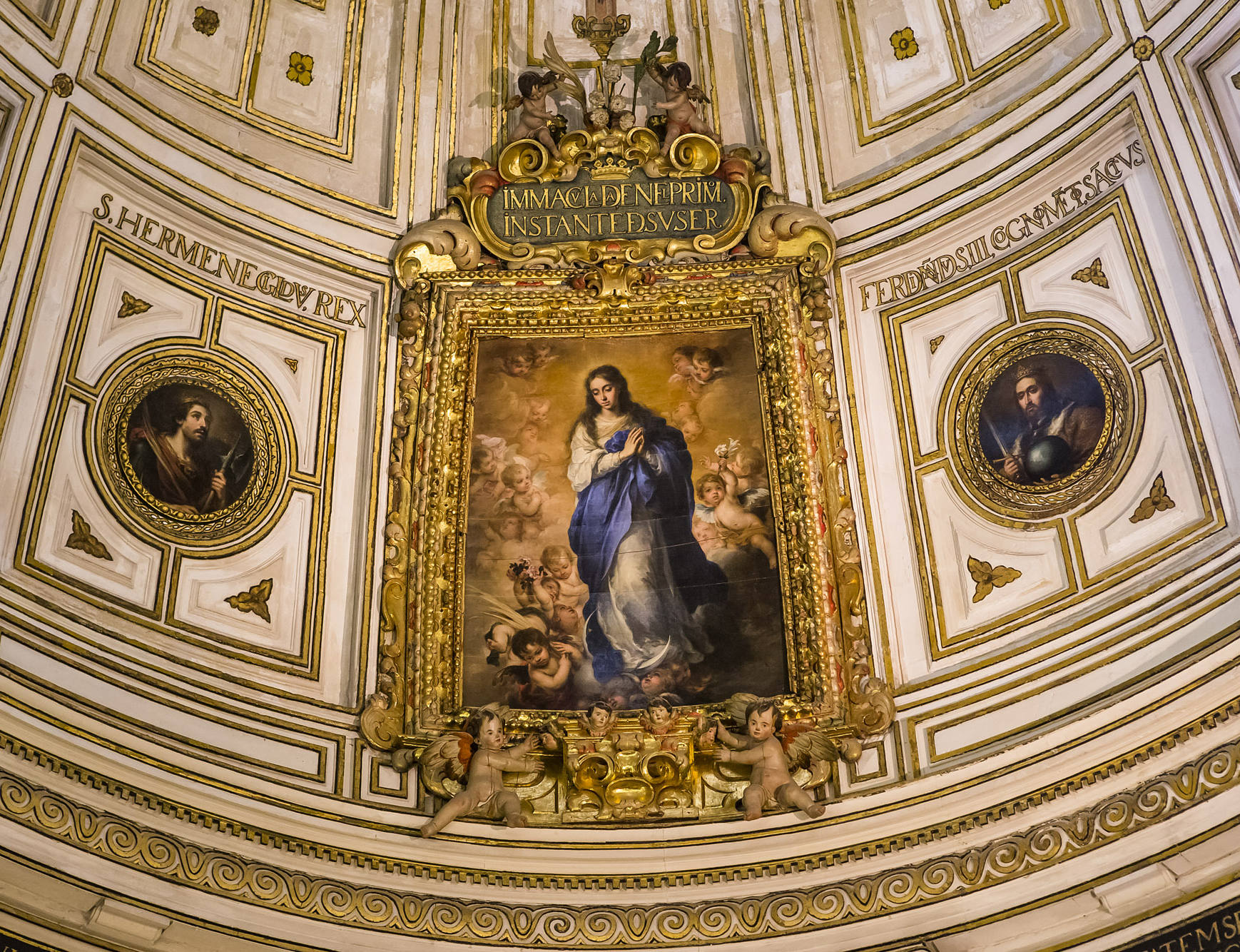 interiors ceilings decor of Seville Cathedral, in Seville, Andalusia, Spain